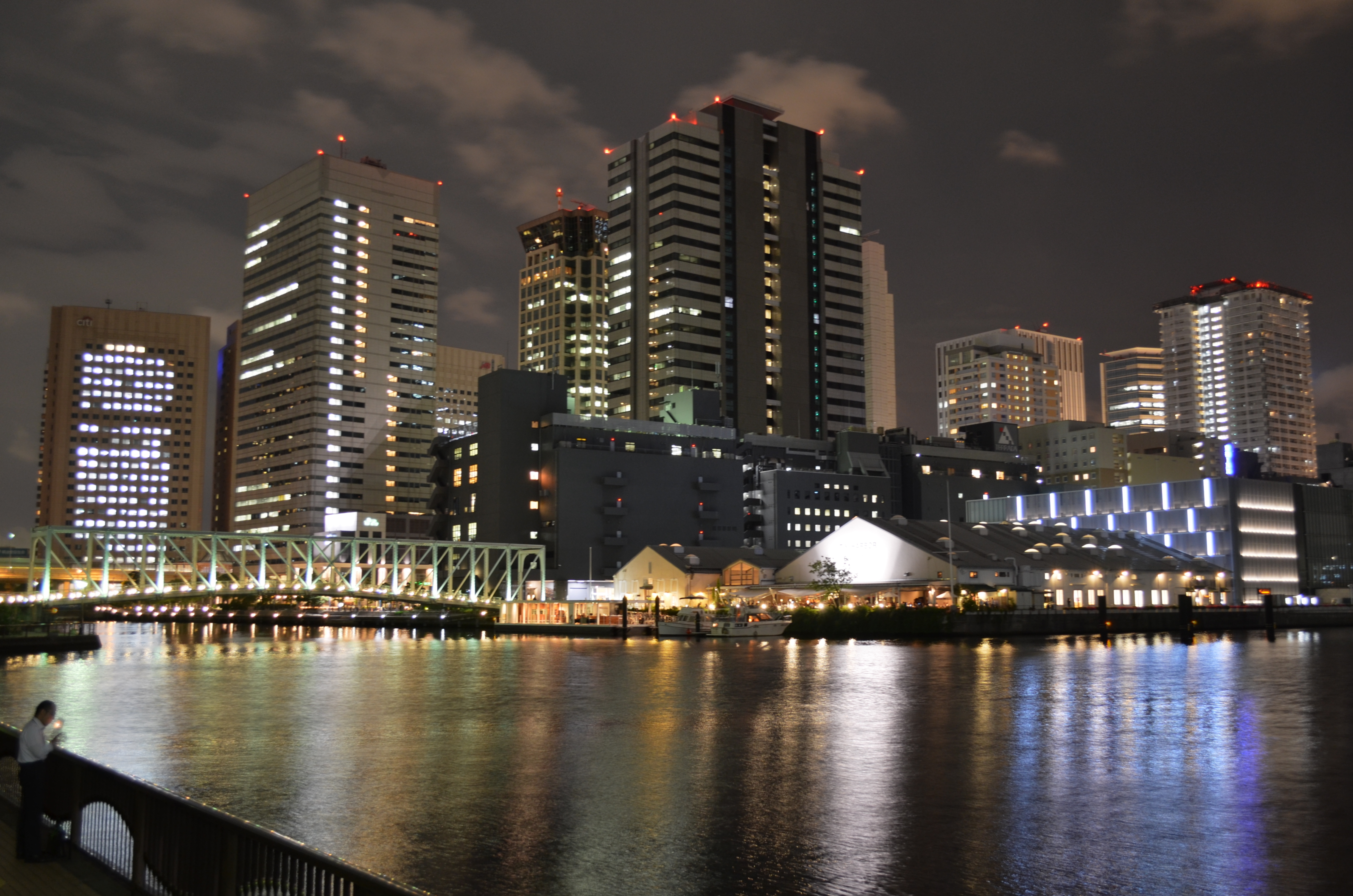 Higashi-Shinagawa, Tokyo, Japan.